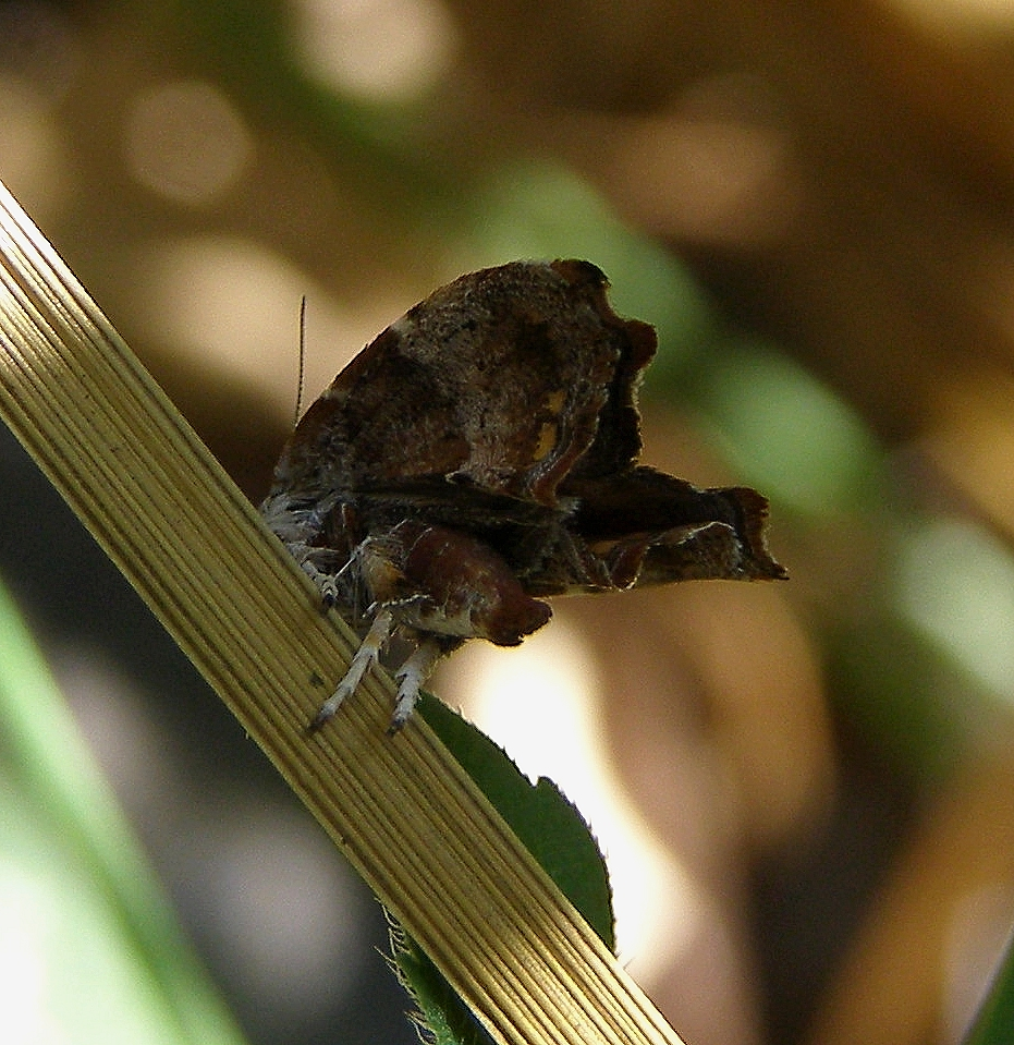 Choreutis nemorana (Hübner 1799)The caterpillar feeds on leaves of fig trees (Ficus sp)